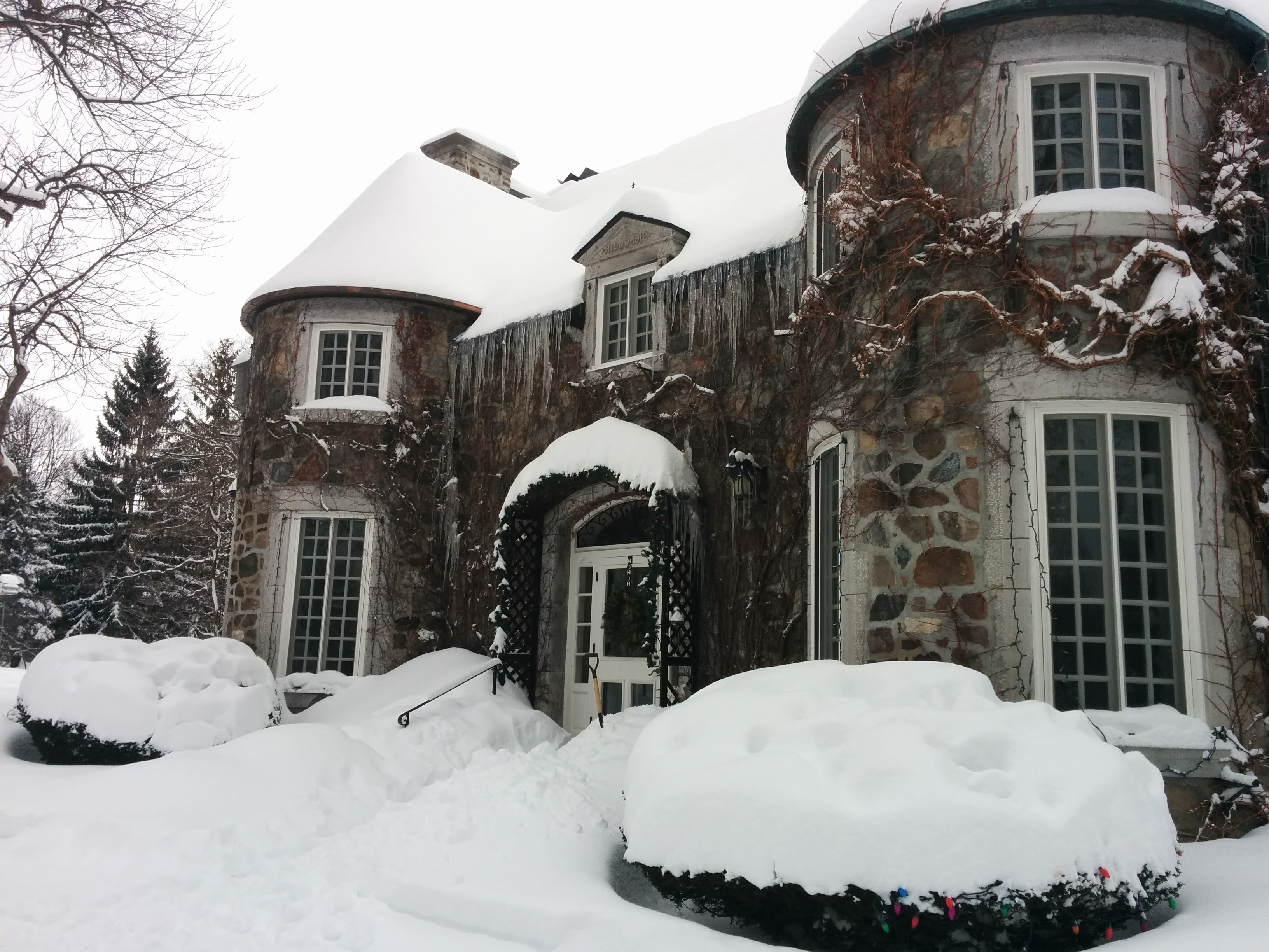 View of the main entrance and main house. Stone turrets flank the entry door.